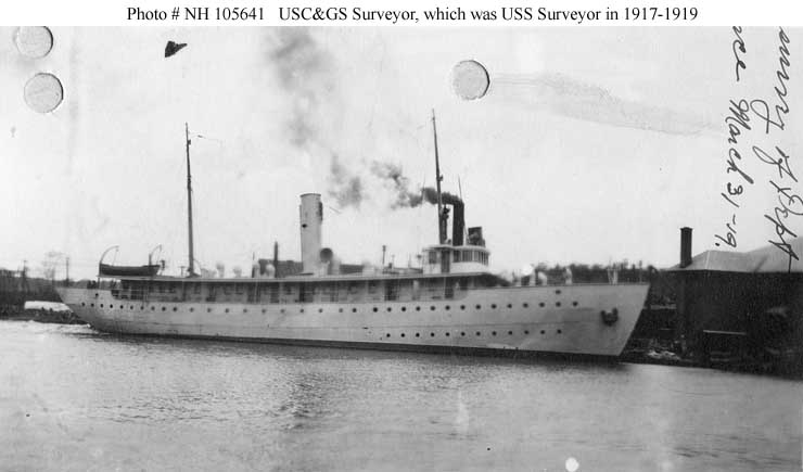 United States Navy patrol vessel USS Surveyor (1917), possibly at the time of her completion for the United States Coast and Geodetic Survey as a survey ship in 1917